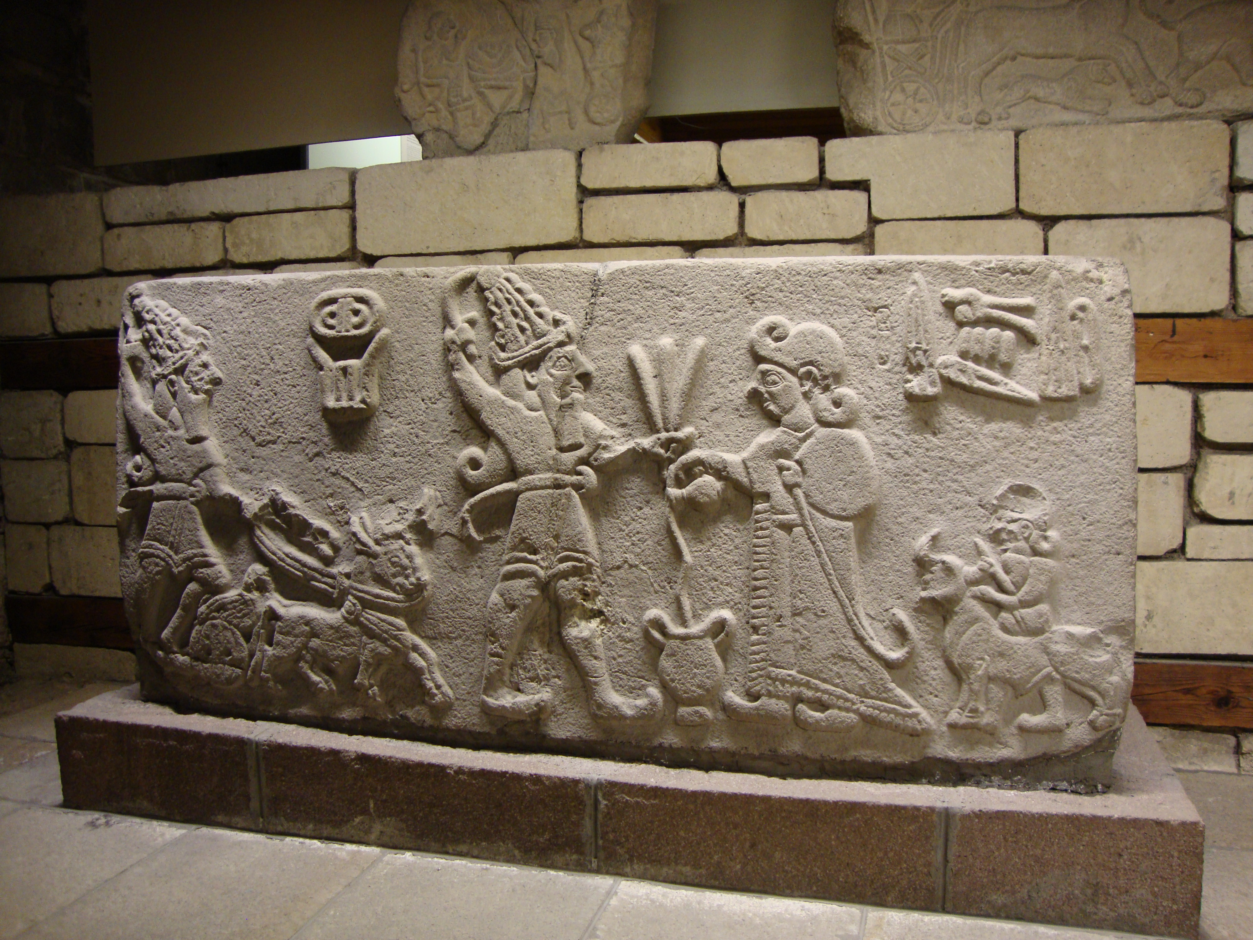 Hittite bas relief sculpture in Ankara's Museum of Anatolian Civilizations